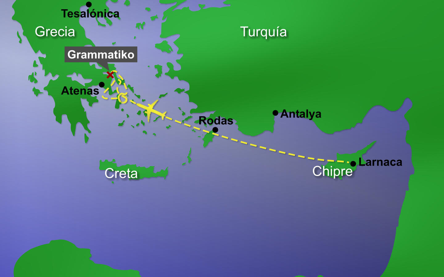 Map of Helios Airways Flight 522. Helios Airwyas Flight 522, crashed on August 14, 2005 near the community of Grammatiko in Greece. The map shows, how the flight proceeded. First, the autopilot controled the airplane in the direction of Athens airport. Then the airplane flew to the south and flew loops over the Ägais for about three hours. After that, the airplane flew in the direction of Athens airport again, until it crashed nearby Grammatiko.